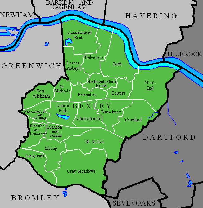 The 21 wards of the London Borough of Bexley (green) and surrounding London boroughs (light grey) and other districts (dark grey). Wards of the London Borough of Bexley.